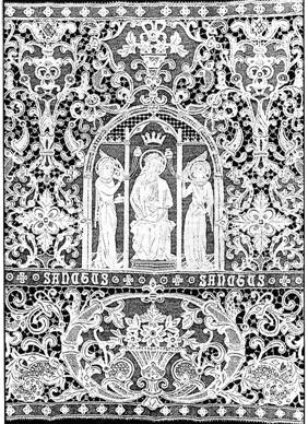 Tabernacle veil of Kenmare Lace 1911 – National museum